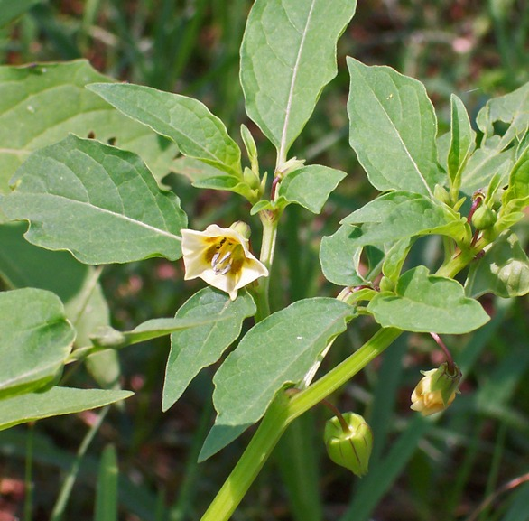 Physalis angulata, wild plant from Darmaga, Bogor, West Java, [Indonesia